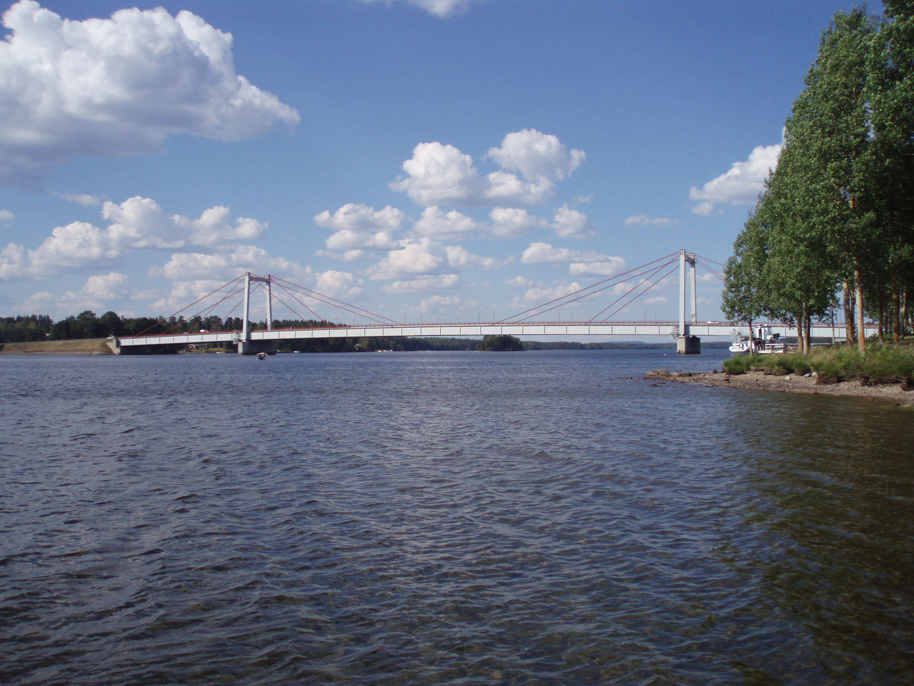 Strömsund bridge, Strömsund, Sweden. Photo taken in aug. 2006 by me - User:Cucumber